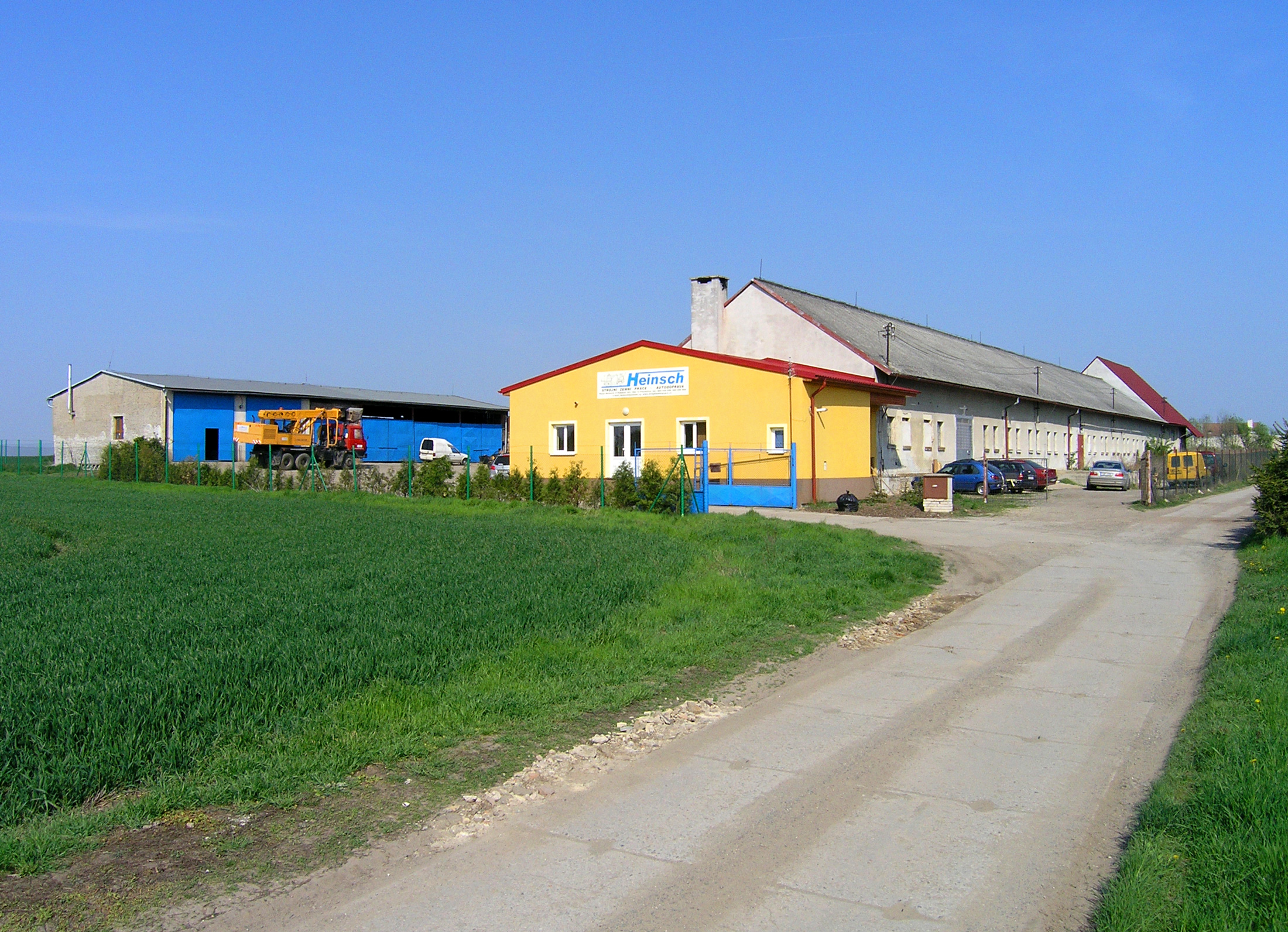 Former collective farm in Přezletice village, Czech Republic